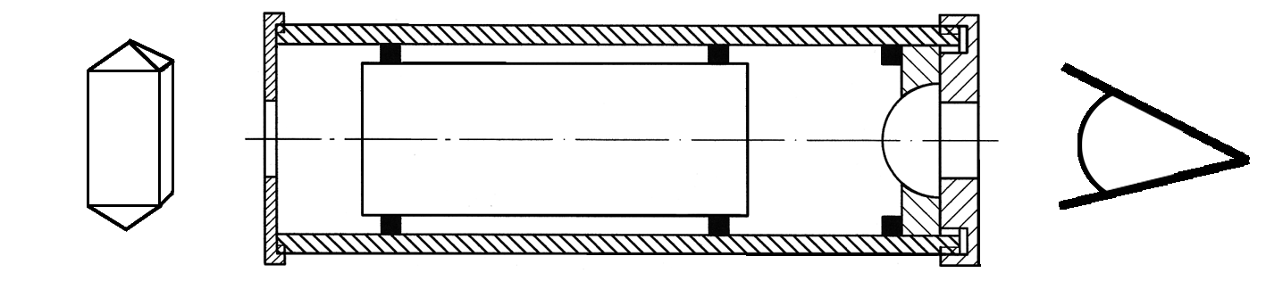 Dichroscope ; Dichroskop = optical instrument